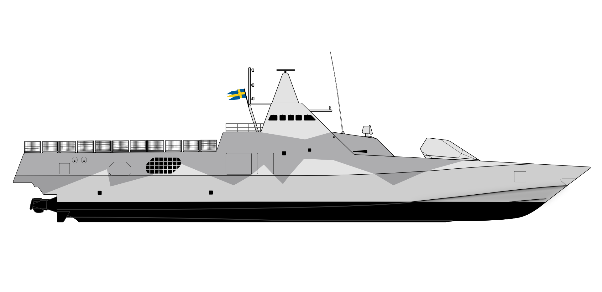 Drawing of the corvettes in the Visby class of the Swedish navy.